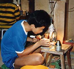 Thai commercial lapidary service